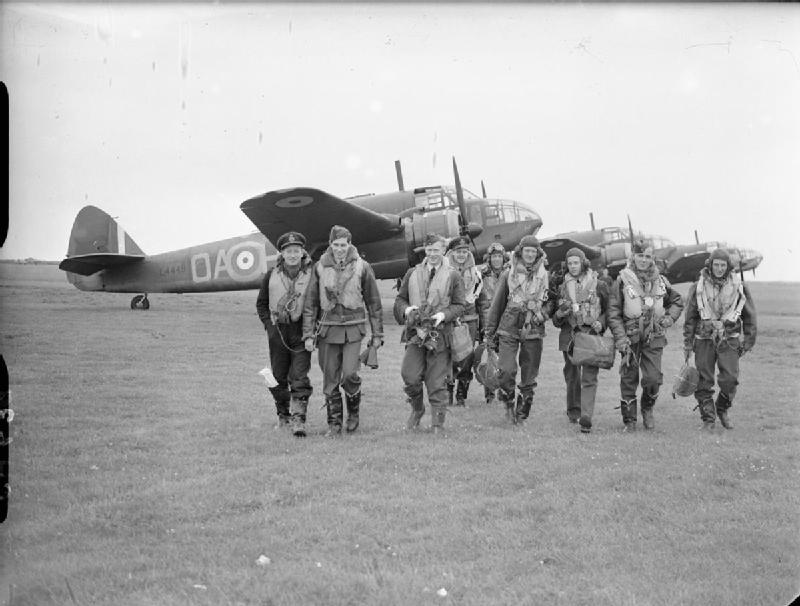 Royal Air Force Coastal Command, 1939-1945. Aircrew of No. 22 Squadron RAF walking away from their Bristol Beaufort Mark Is after a mission, at North Coates, Lincolnshire.